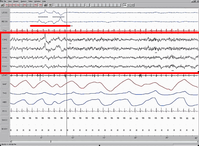 This is a screenshot of a polysomnographic record (30 seconds) representing Rapid Eye Movement Sleep. EEG highlighted by red box. Eye movements highlighted by red line.